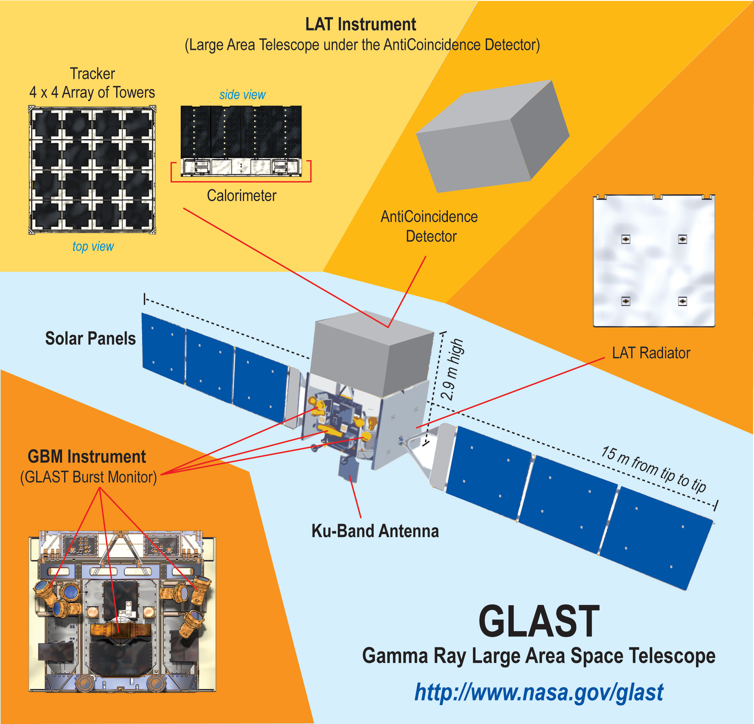 This is a schematic illustration of the GLAST satellite, with instruments labeled.